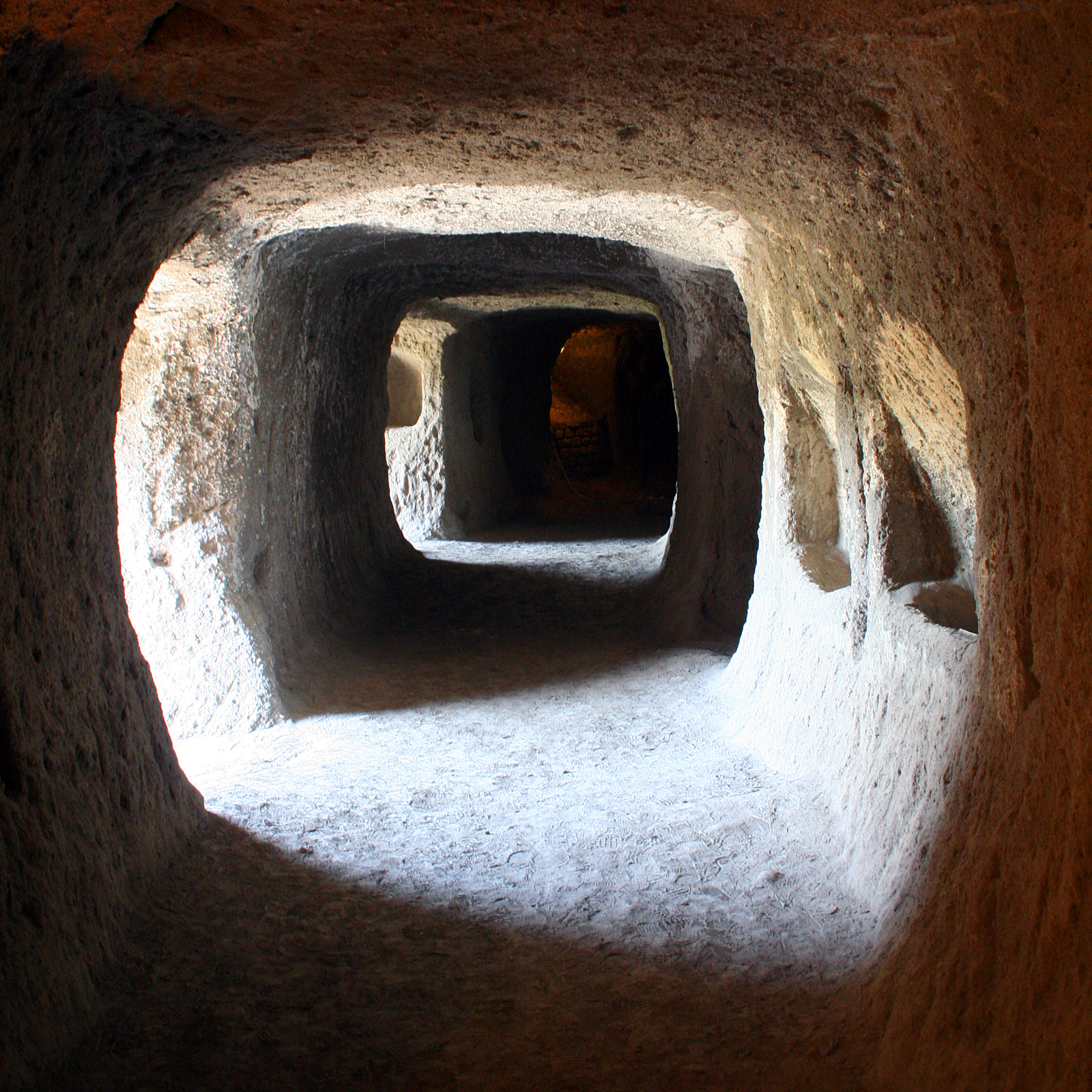 Underground city of Orvieto, Italy